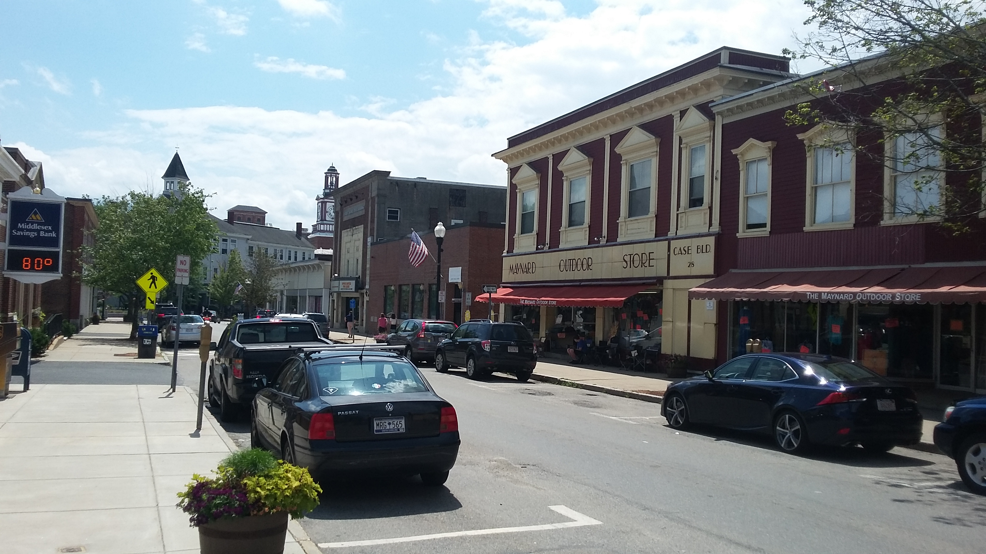 Nason Street in Maynard Massachusetts MA with the historic Maynard Outdoor Store